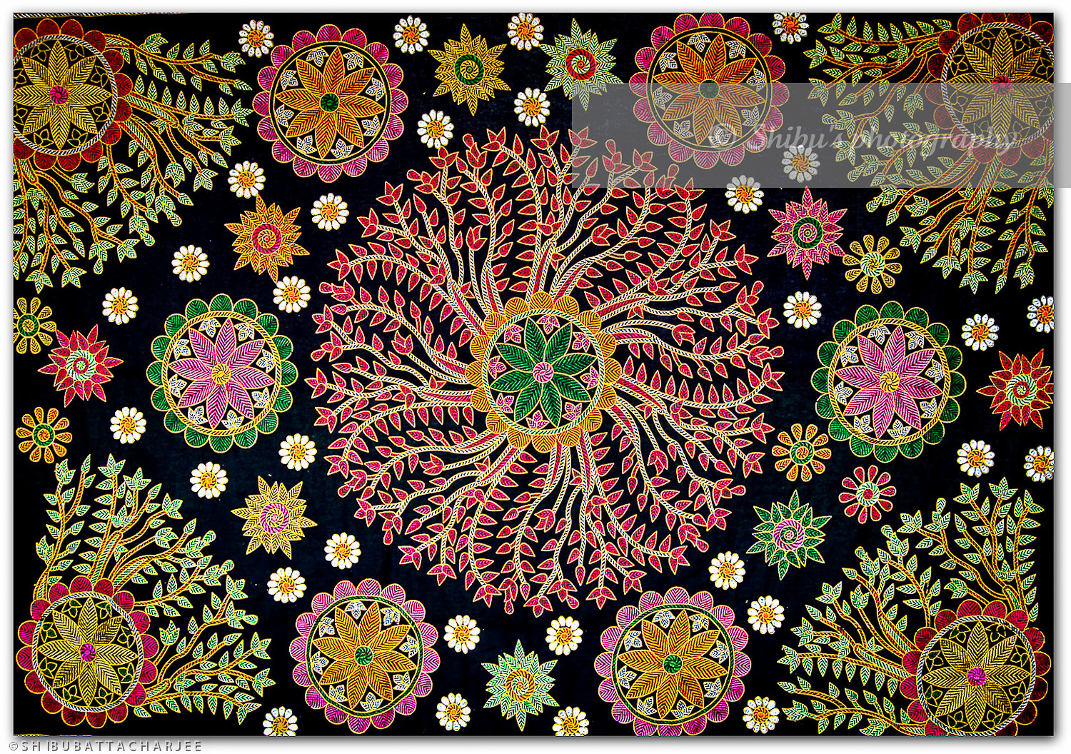 Naksi kanthaNaksitradition kantha “নকশীকাঁথা” This is New clothing in a modern sewing center, sewing is not designed to print.